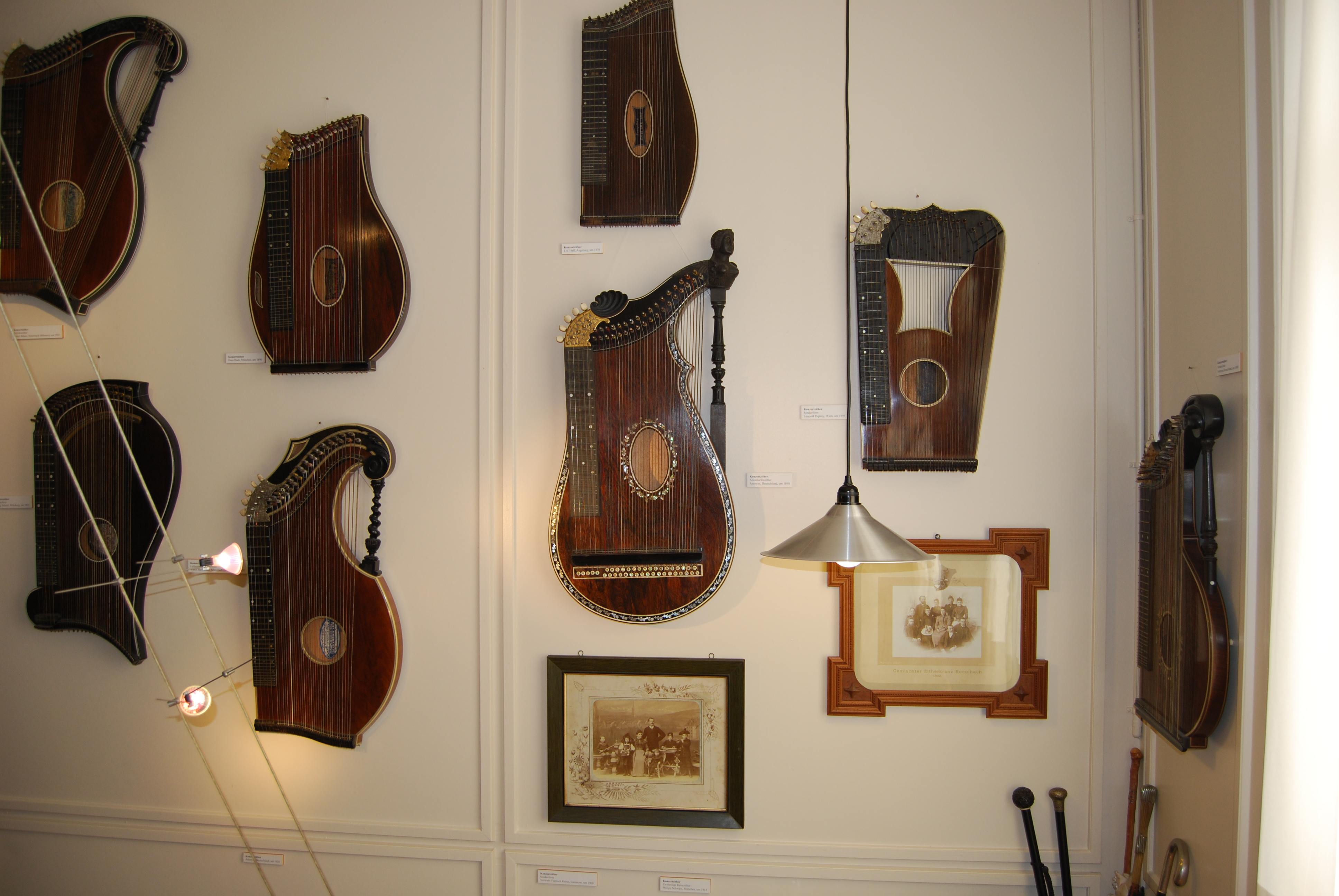 Swiss Zither Culture Centre at Trachselwald, canton of Bern, Switzerland